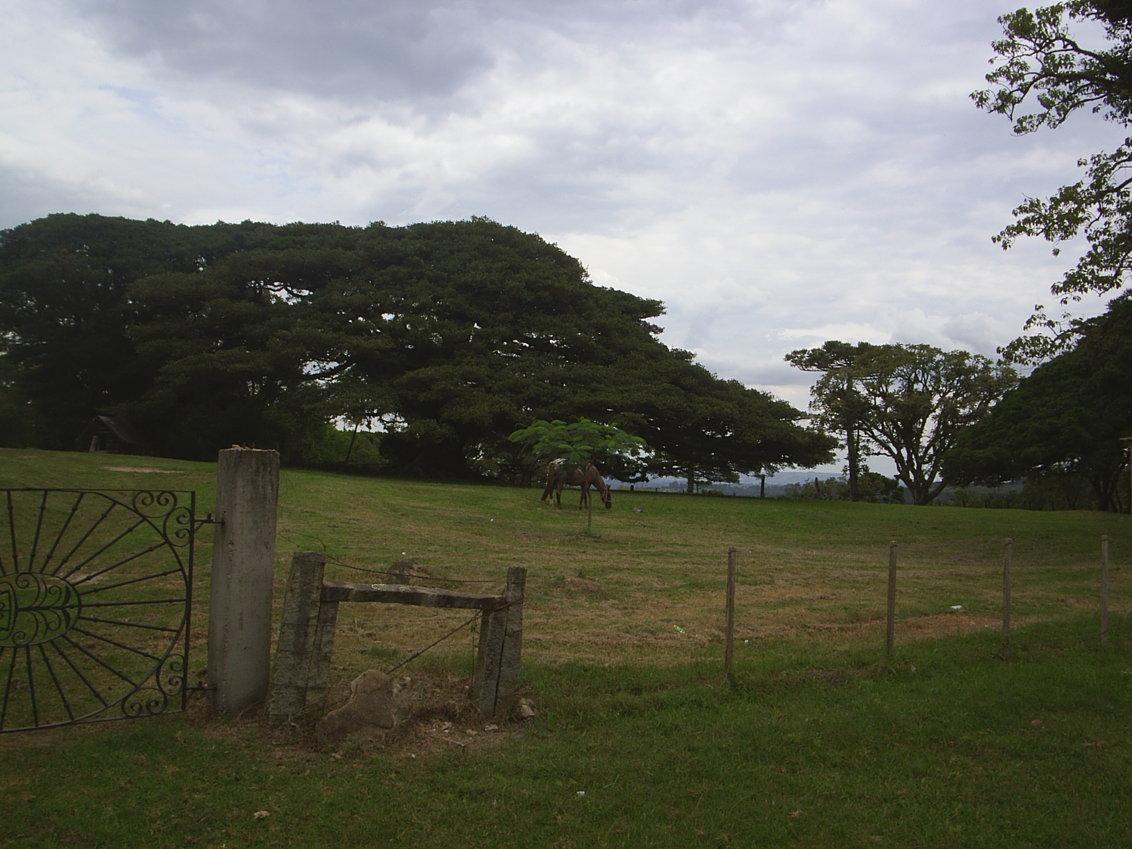 The countryside of the municipality of Pelotas, Rio Grande do Sul state, Brazil.